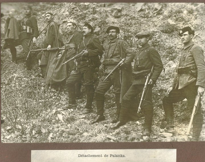 IMARO Cheta ot Kriva Palanka